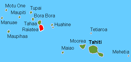 Location of Raiatea within Society Islands, French Polynesia